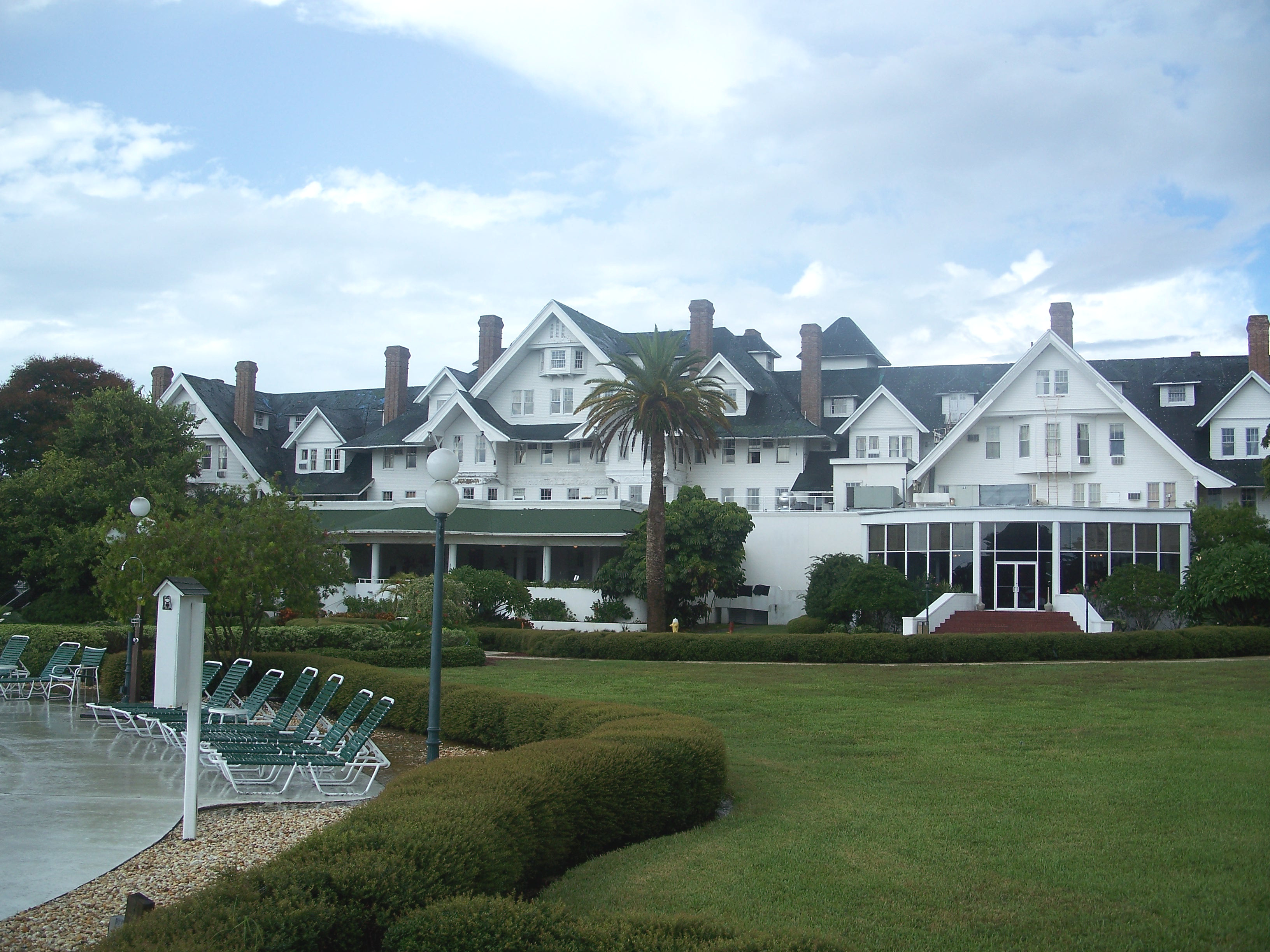 Belleview-Biltmore Hotel, in Clearwater, Florida